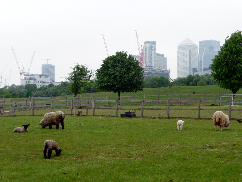 Mudchute Farm, Isle of Dogs Looking across the farmland of Mudchute Farm with some lambs grazing and the Canary Wharf Towers in the background.